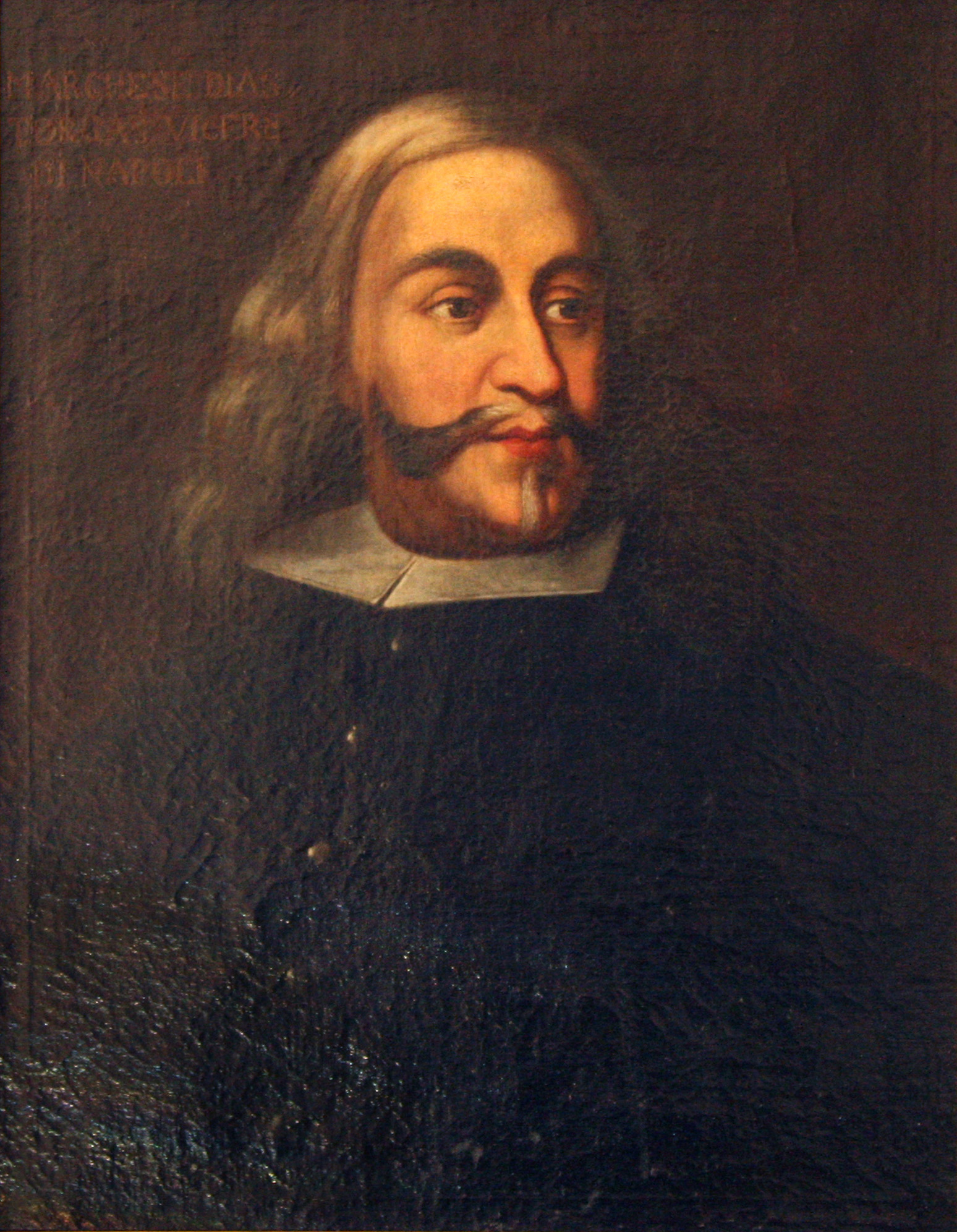 Painting of Antonio Álvarez Osorio, marchese di Astorga (1672-1675) Viceroy of Naples 1672-1675